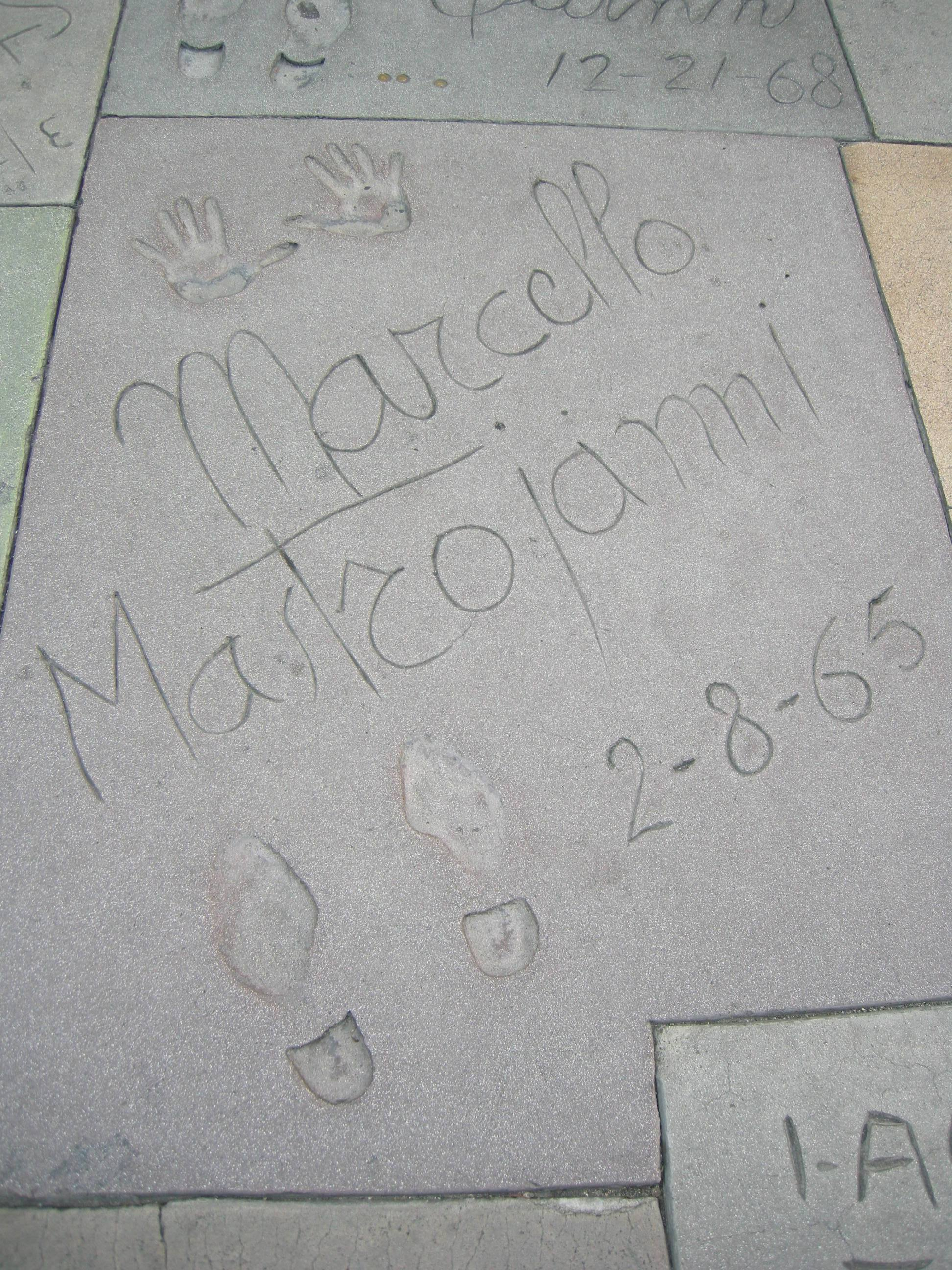 Grauman's Chinese Theatre, marcello mastroianni